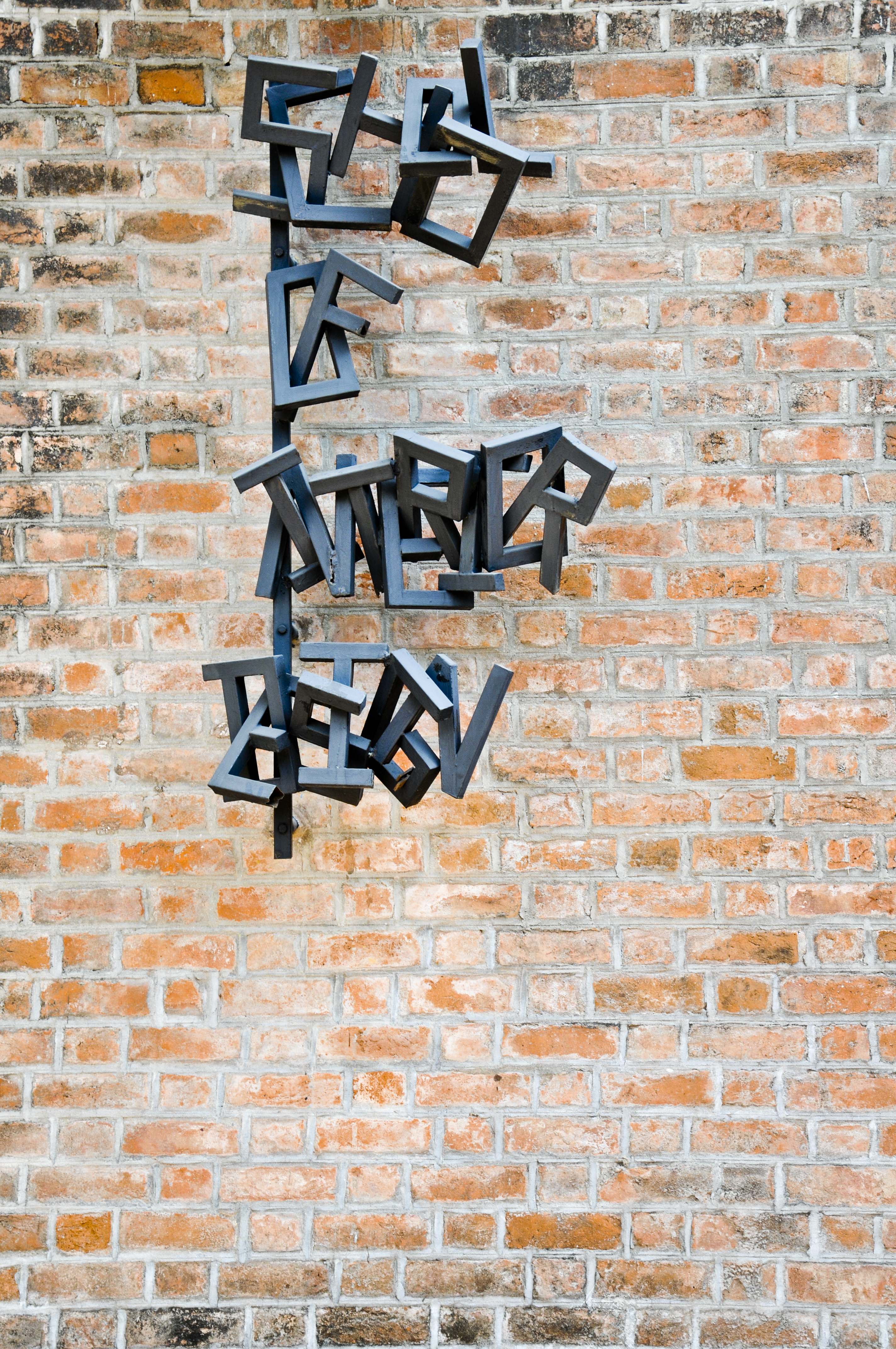 Cept 4